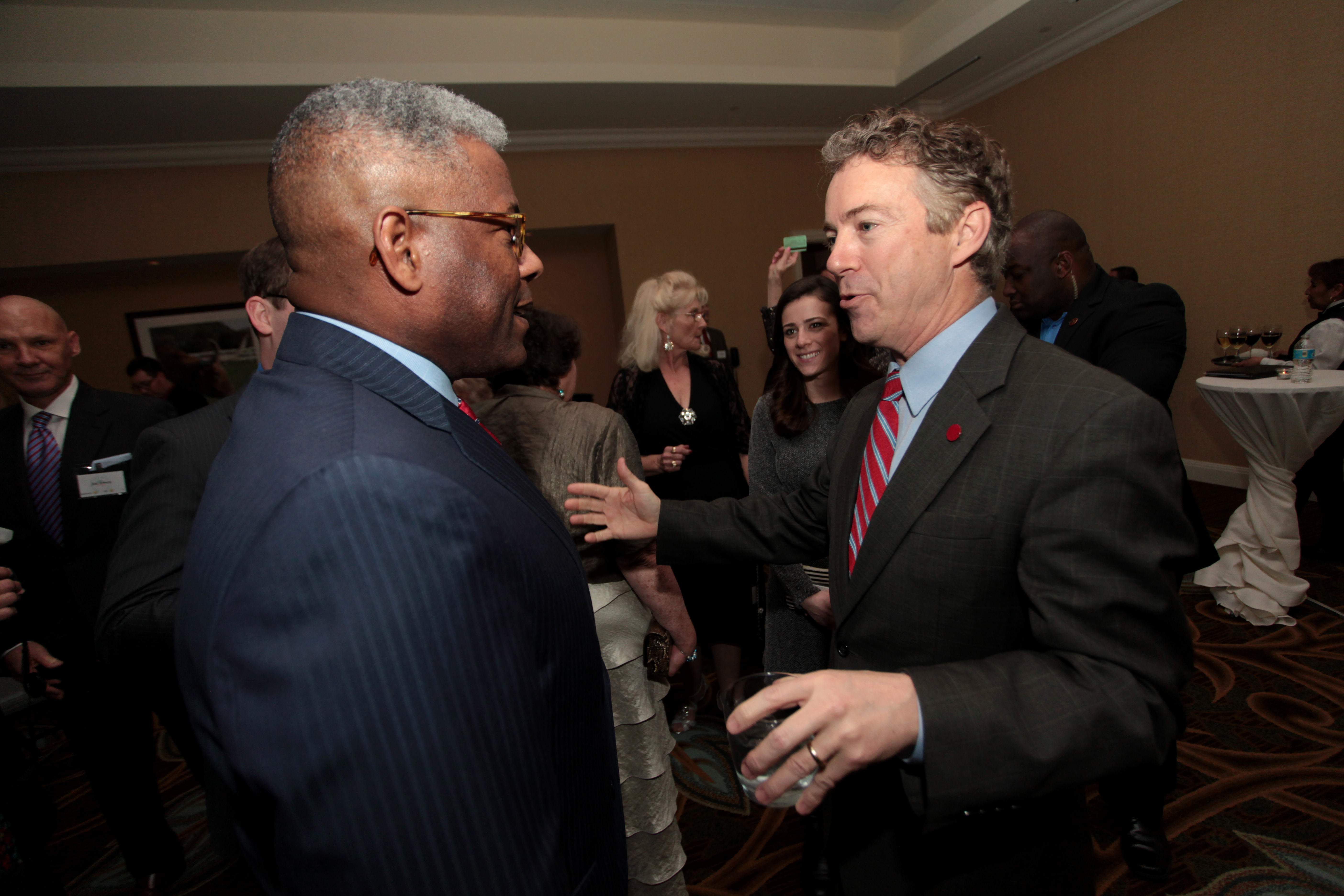 Senator Rand Paul of Kentucky speaking with former U.S. Congressman Allen West at a reception before the 2015 Tarrant County Lincoln Day dinner in Fort Worth, Texas.